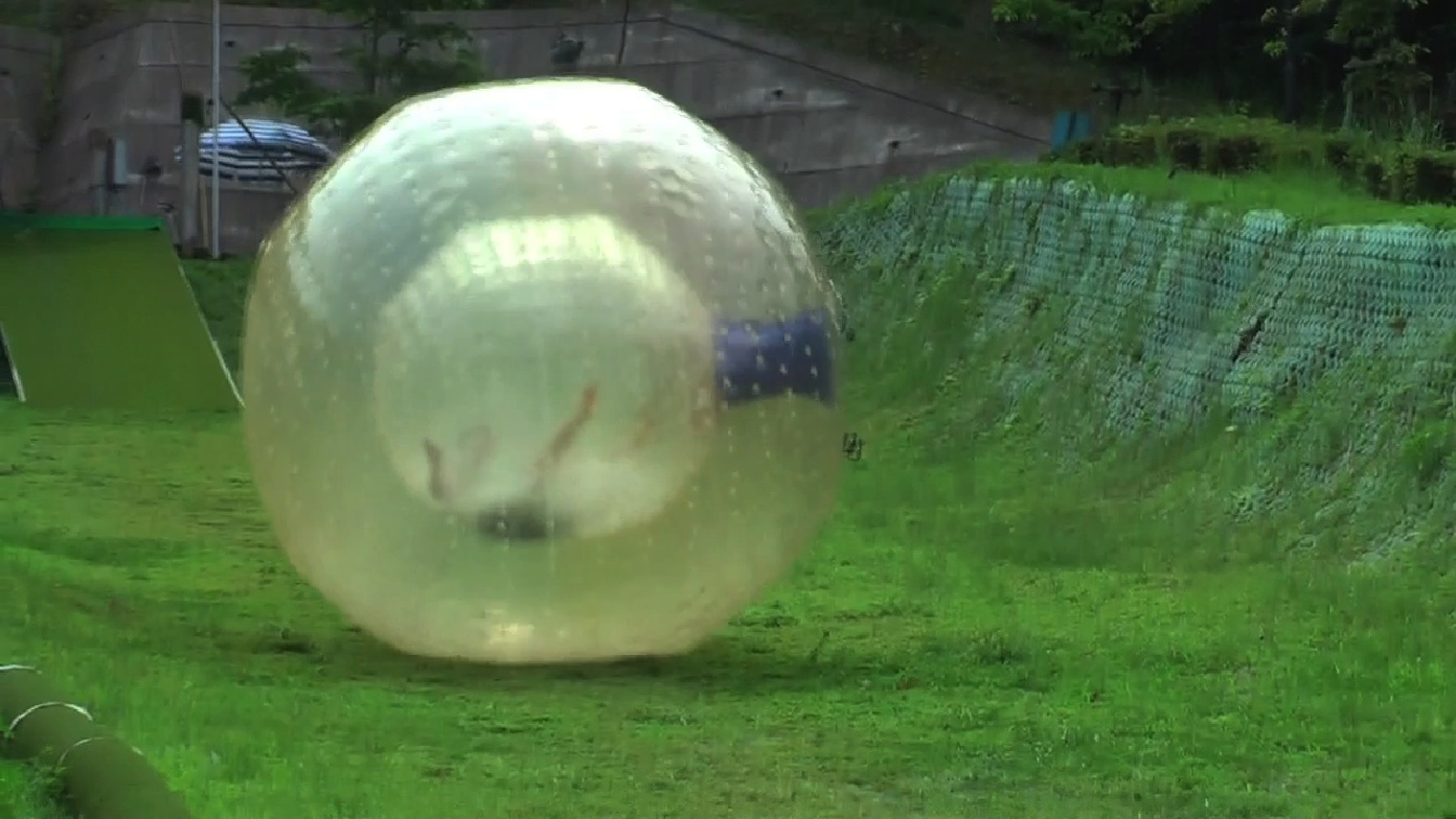 I went Zorbing in Japan. (A capture from my video)